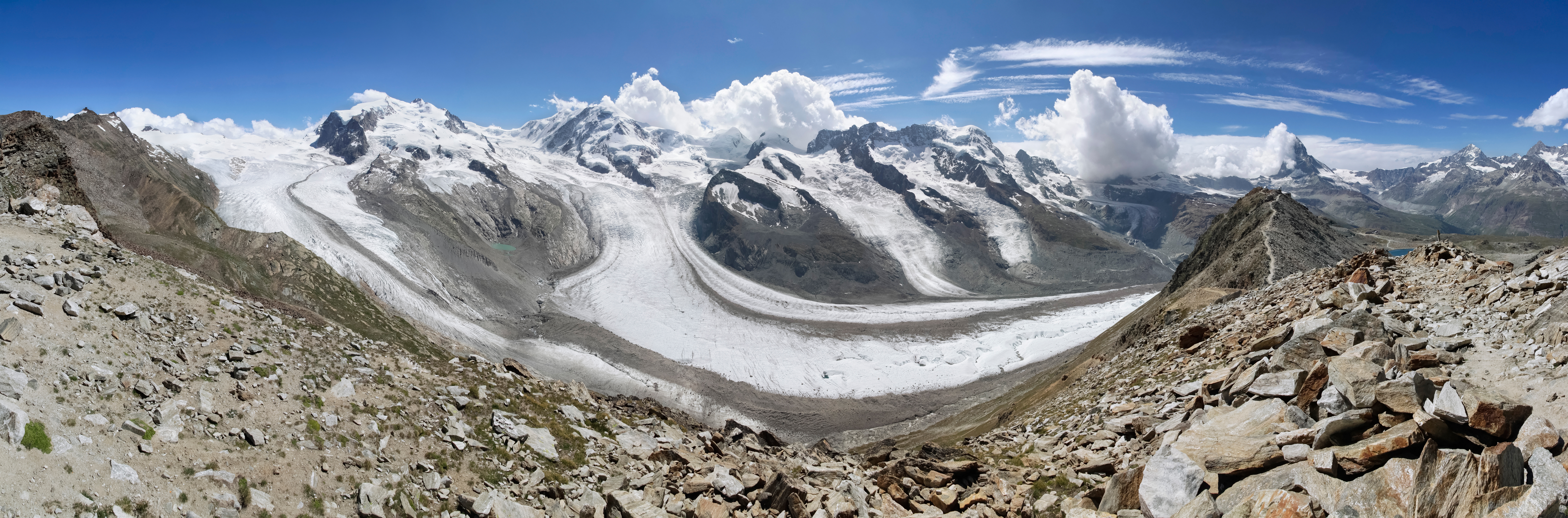 A view to the glaciers around the southside of Gornergrat, Wallis, Switzerland in 2012 August. The picture has been taken from the ridge between Gornergrat and Hohtälli.